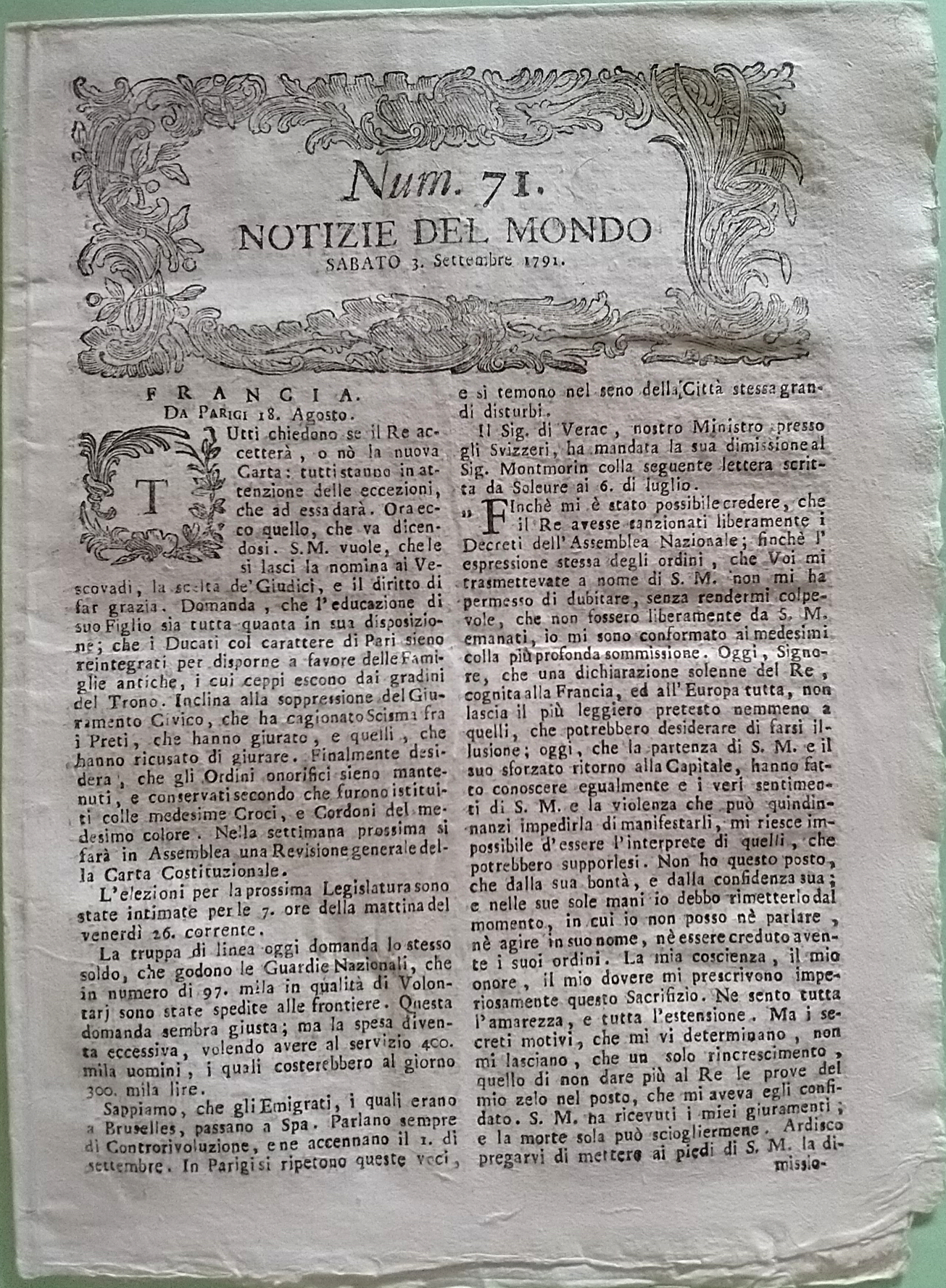 Newspaper "Notizie del Mondo" of Venice issue of 3 September 1791